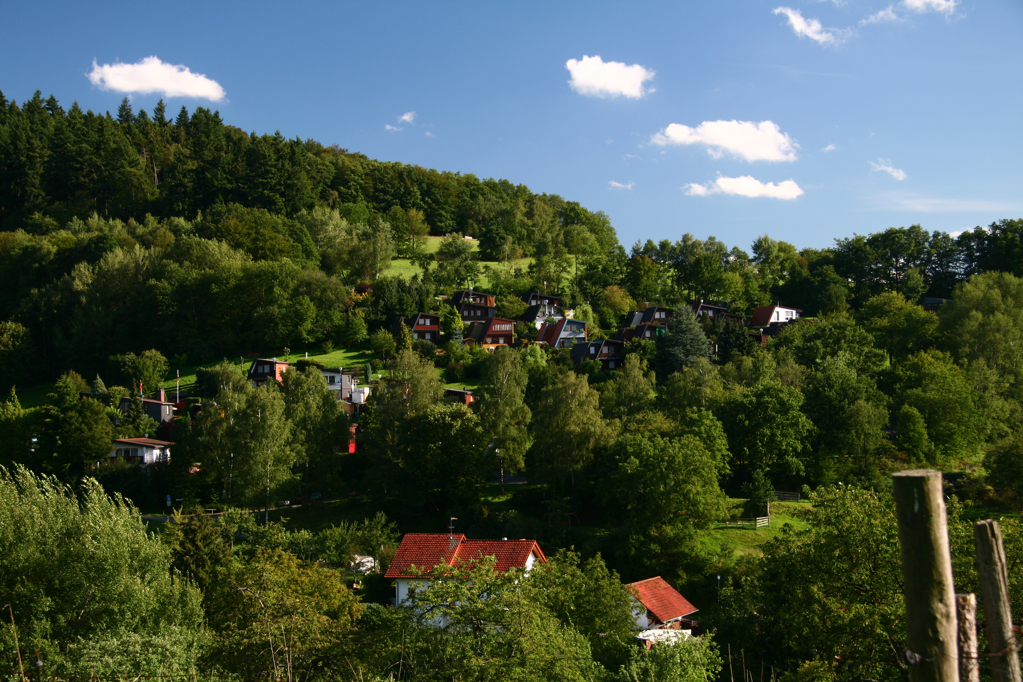 Residential area Schnellertsberg bei Nieder-Kainsbach